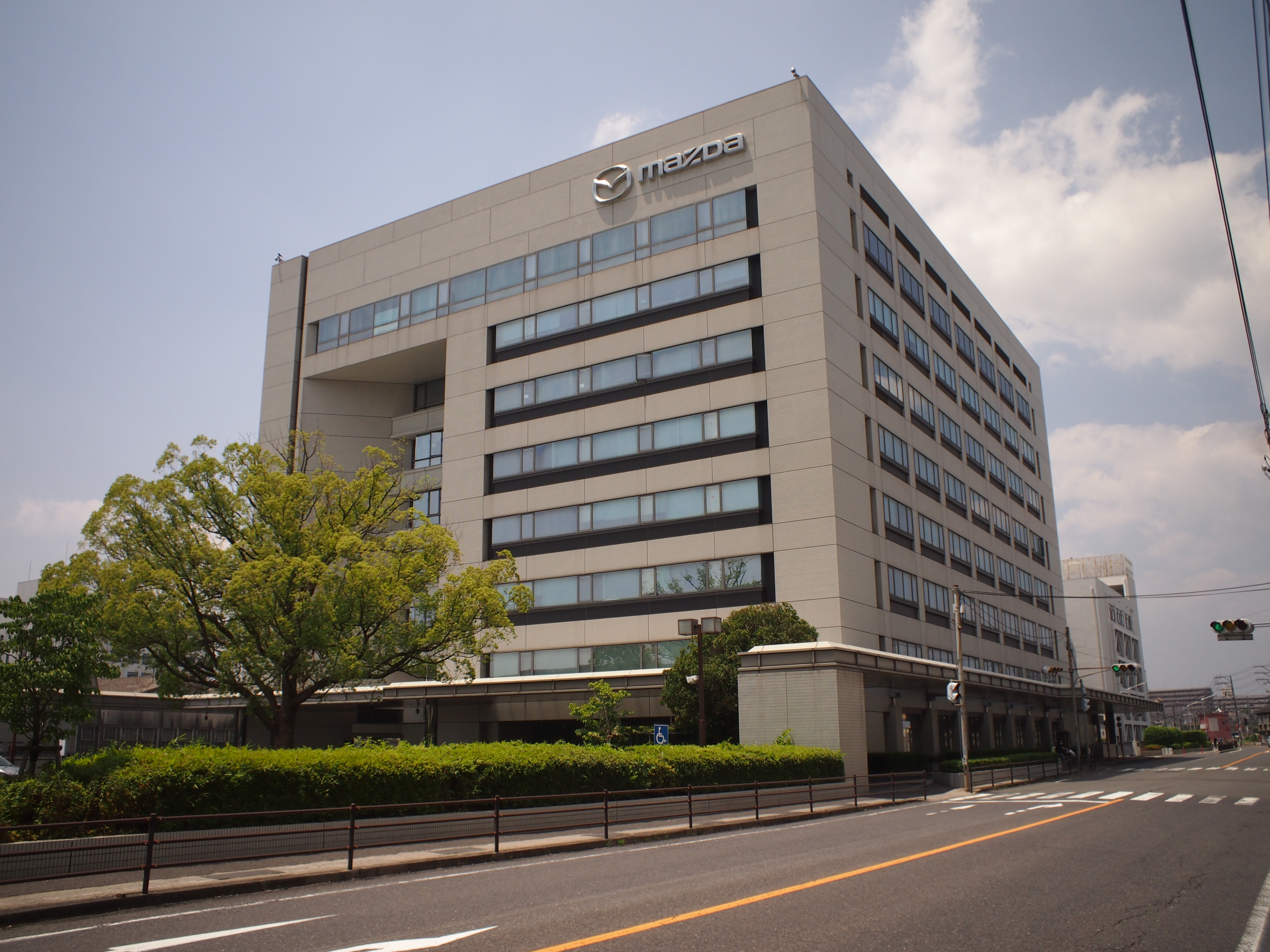 Mazda head office (マツダ本社)